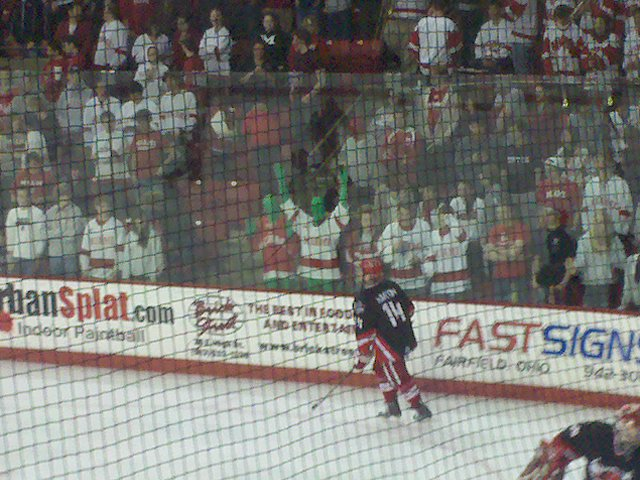 A picture of a RedHawks college hockey fans before a game against Nebraska-Omaha.